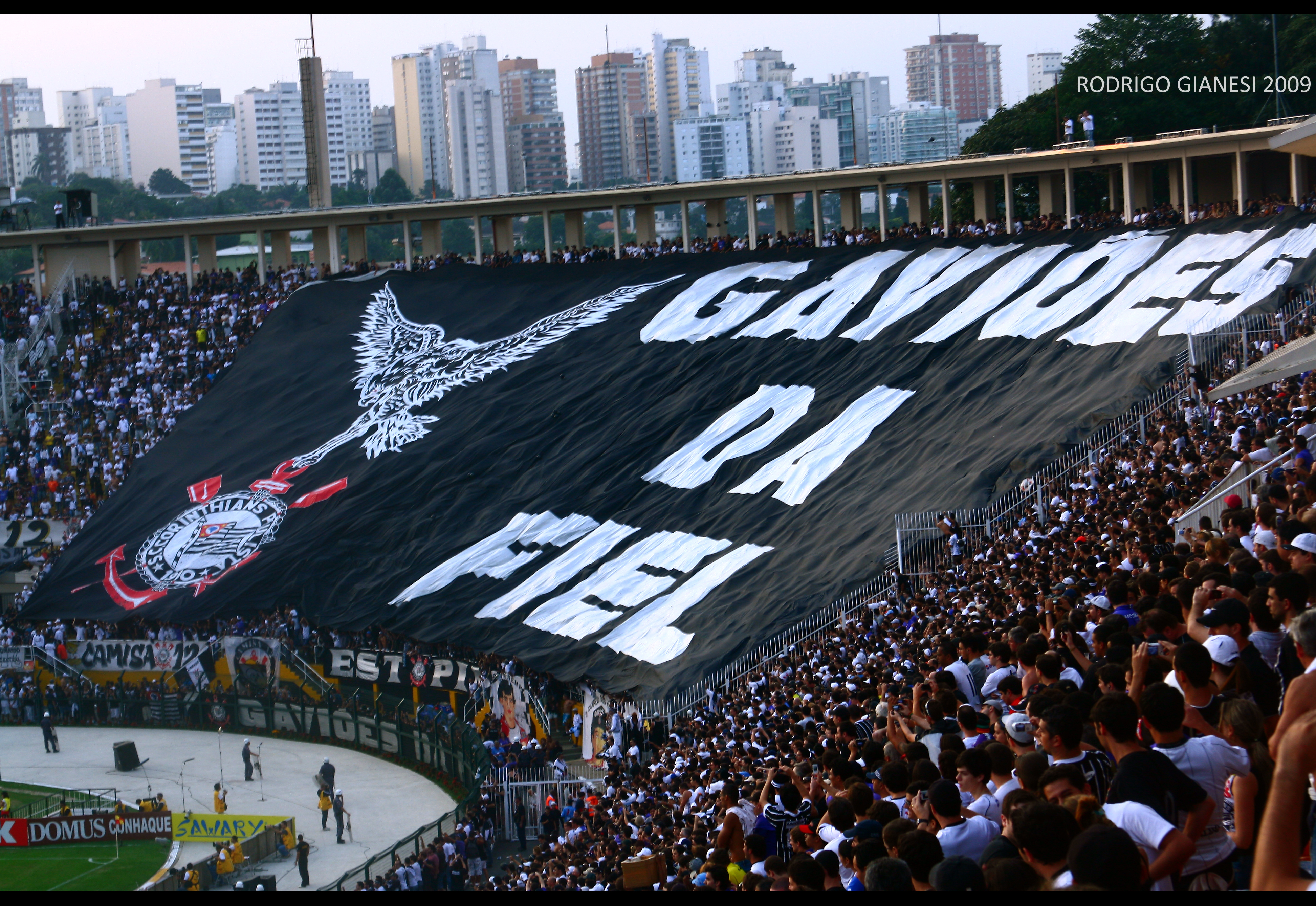 Gaviões da Fiel, Pacaembu, 2009